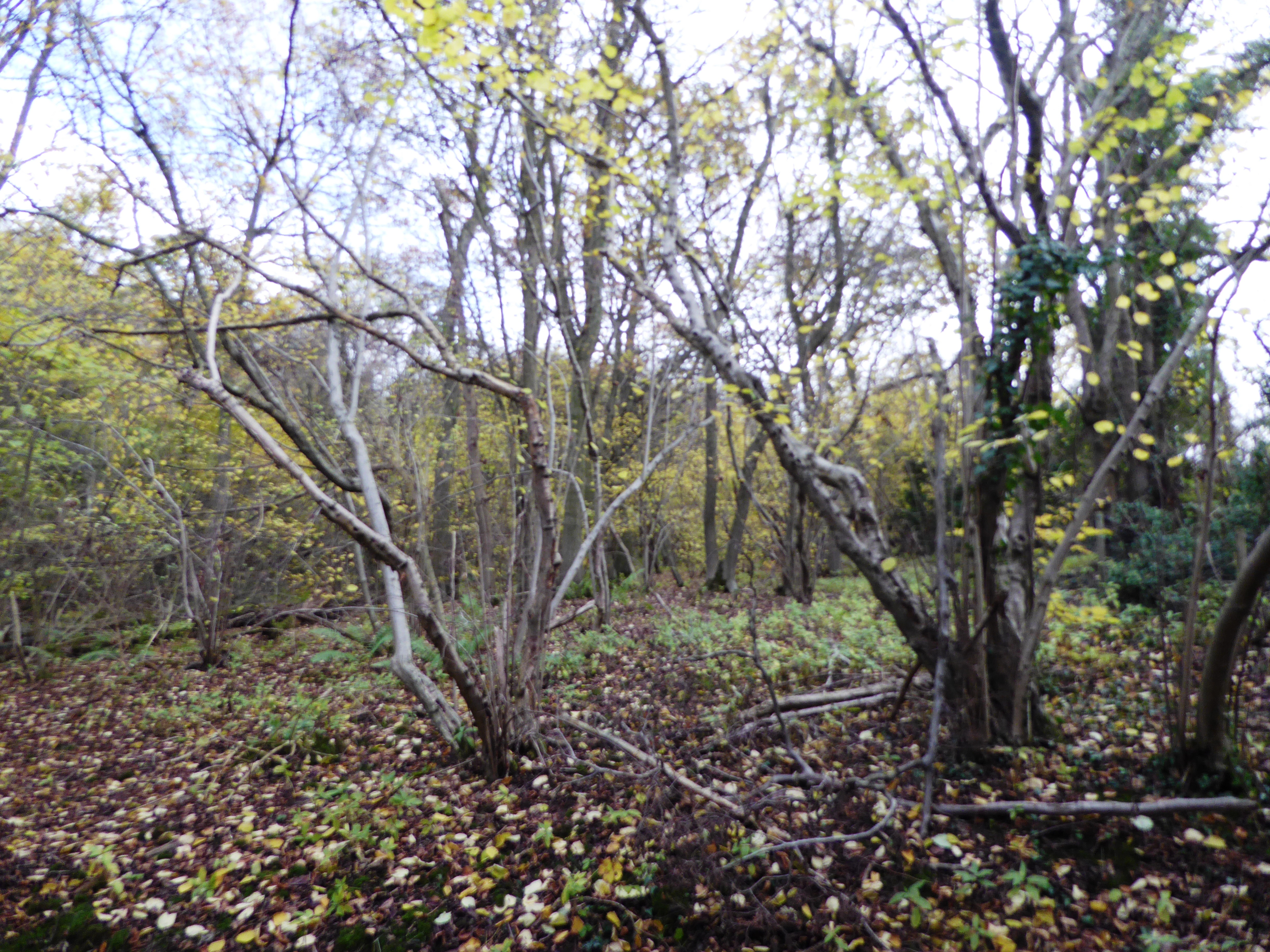 Cloud Wood is a nature reserve north of Worthington in Leicestershire. It is managed by the Leicestershire and Rutland Wildlife Trust, and is part of the Breedon Cloud Wood and Quarry Site of Special Scientific Interest.